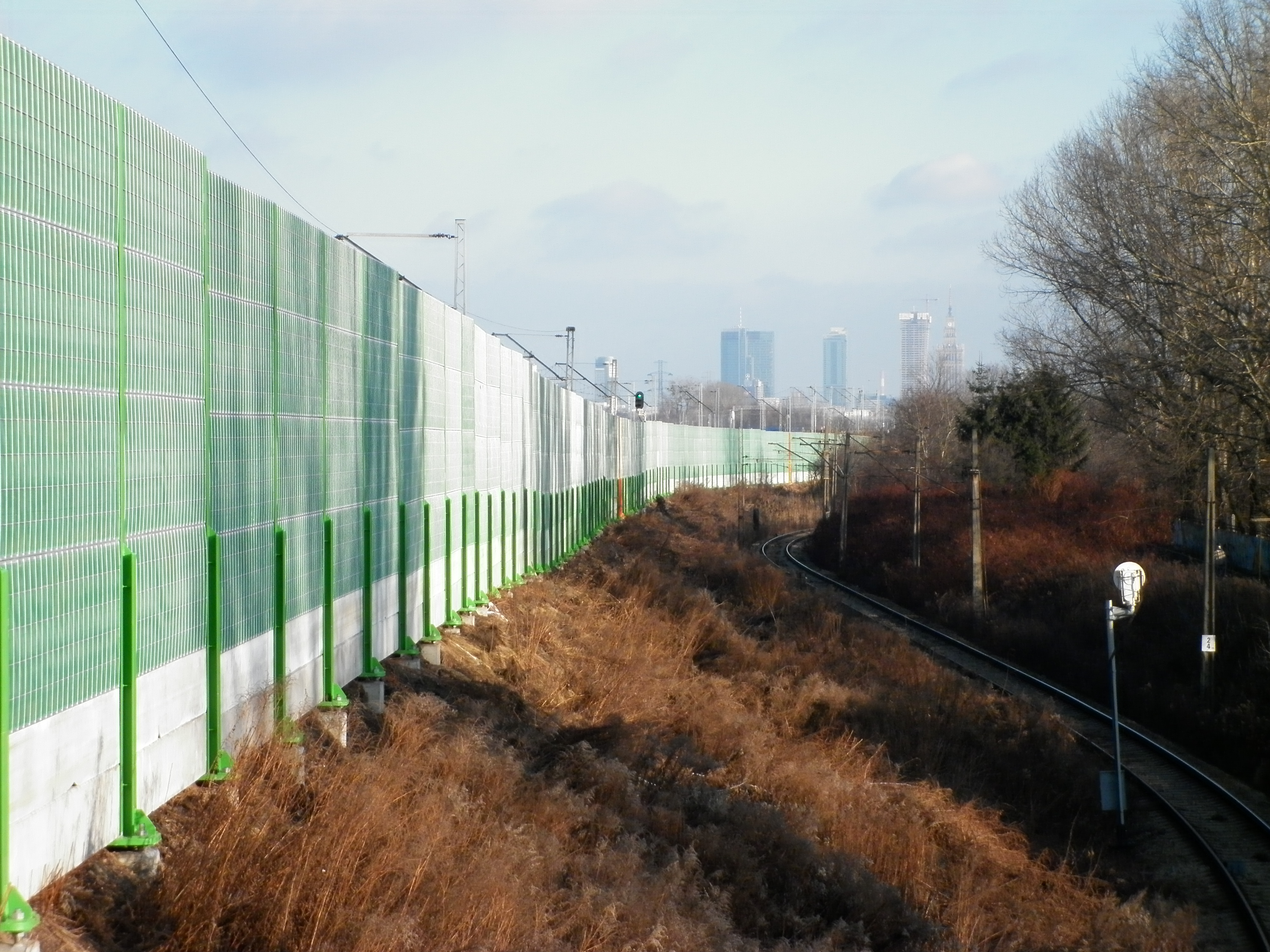 Noise barrier along the railway near Osiedle Tęczowe in Warsaw